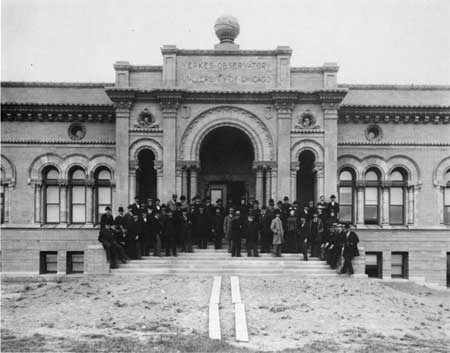 Dedication,Yerkes Observatory — Williams Bay, Wisconsin.